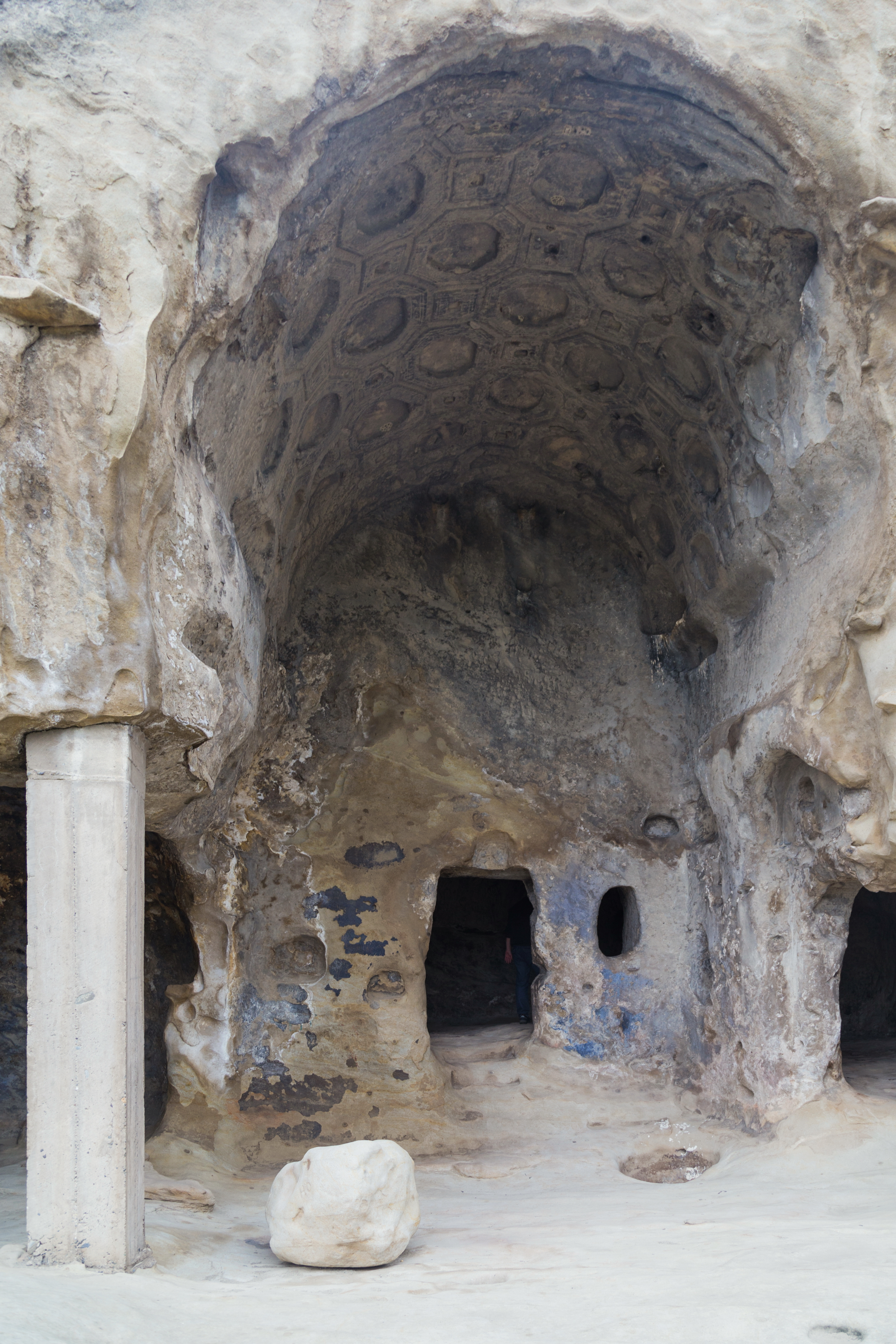 Historical-Architectural Reserve. Uplistsikhe, Shida Kartli, Georgia.